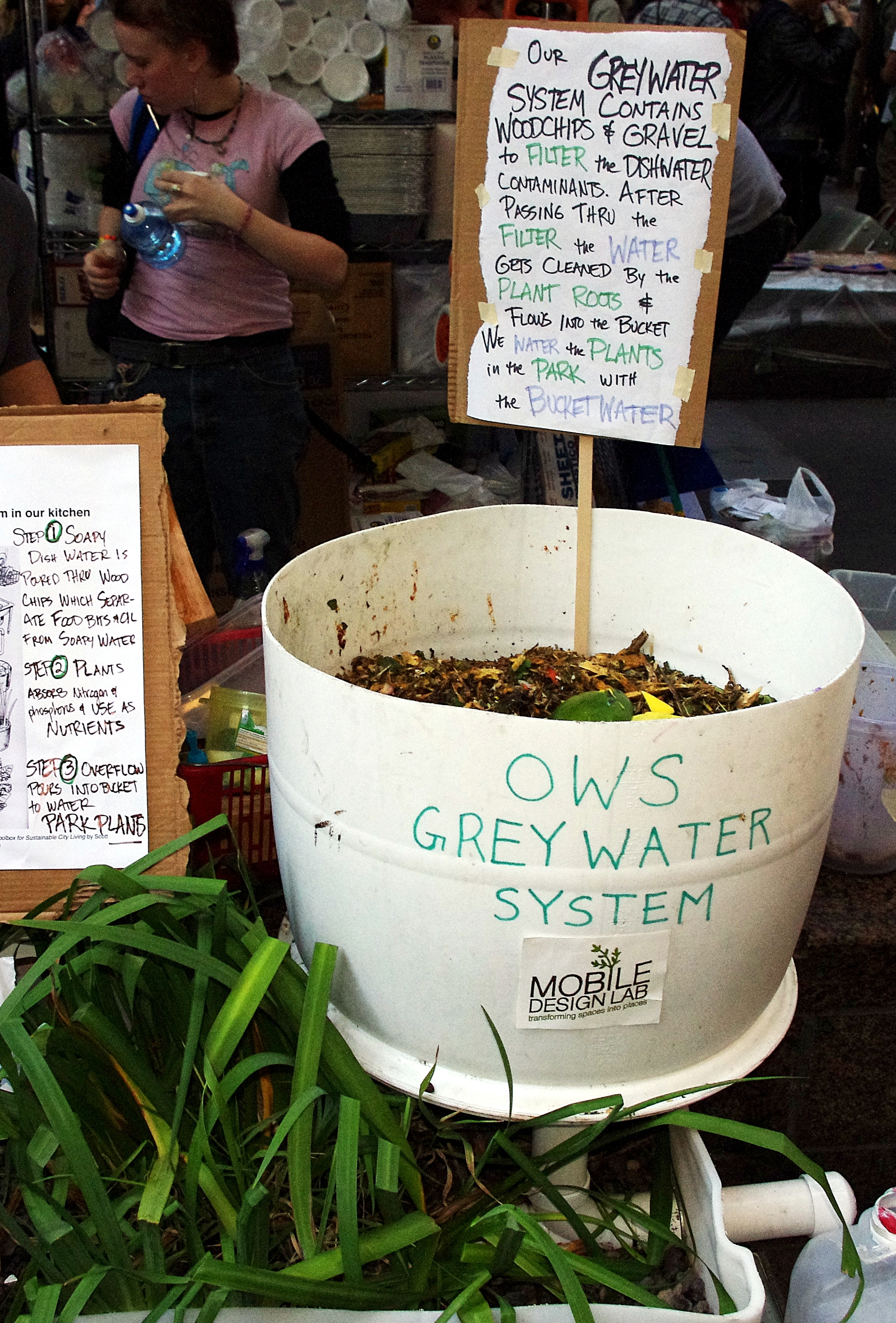 Photos from October 6, Day 21 of Occupy Wall Street. The U.S. Department of Homeland Security continues to keep Wall Street barricaded to the public.